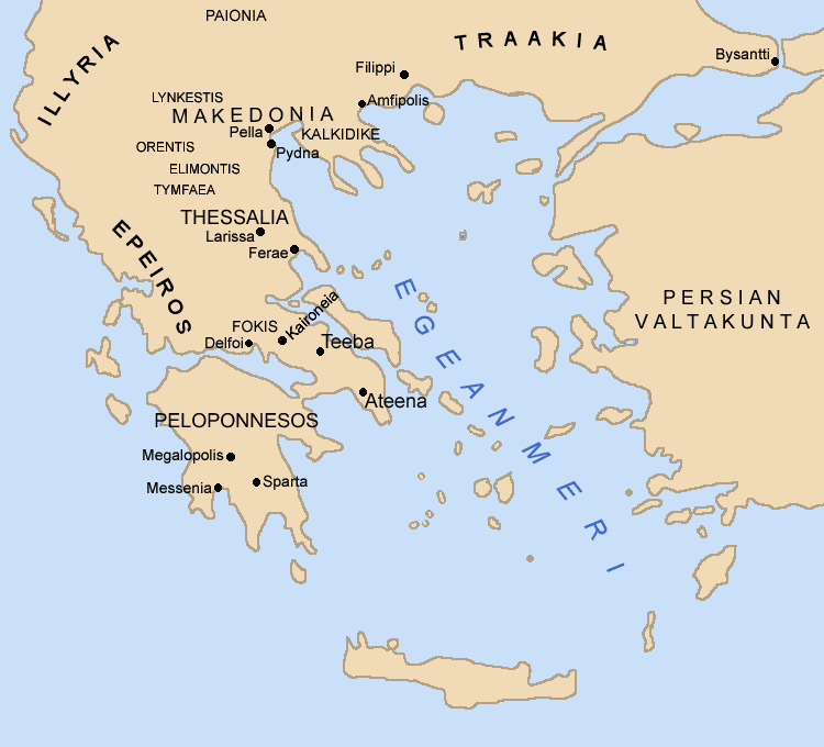 Greece during Philip II of Macedon (Filippos II); in Finnish